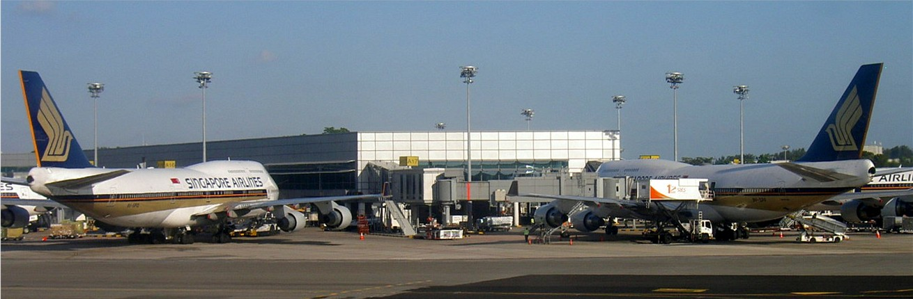 SIA 747-400s at Singapore Changi Airport Terminal 3